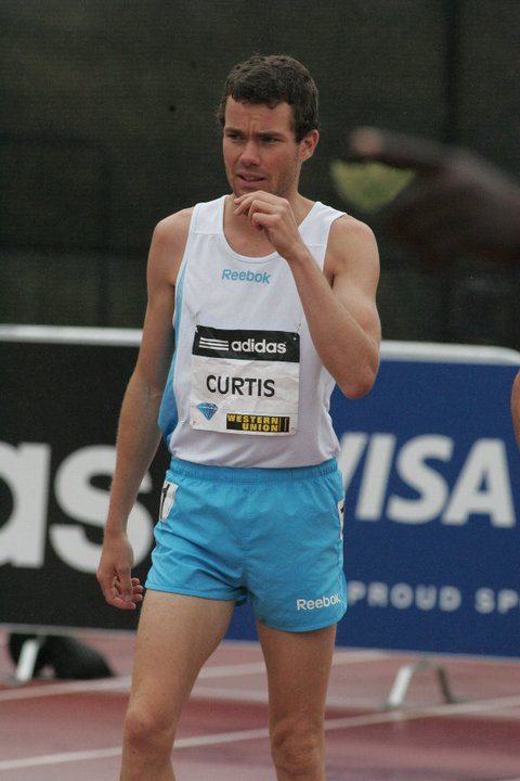 John Nepolitan photo taken at the start line of the NYC Diamond League meeting